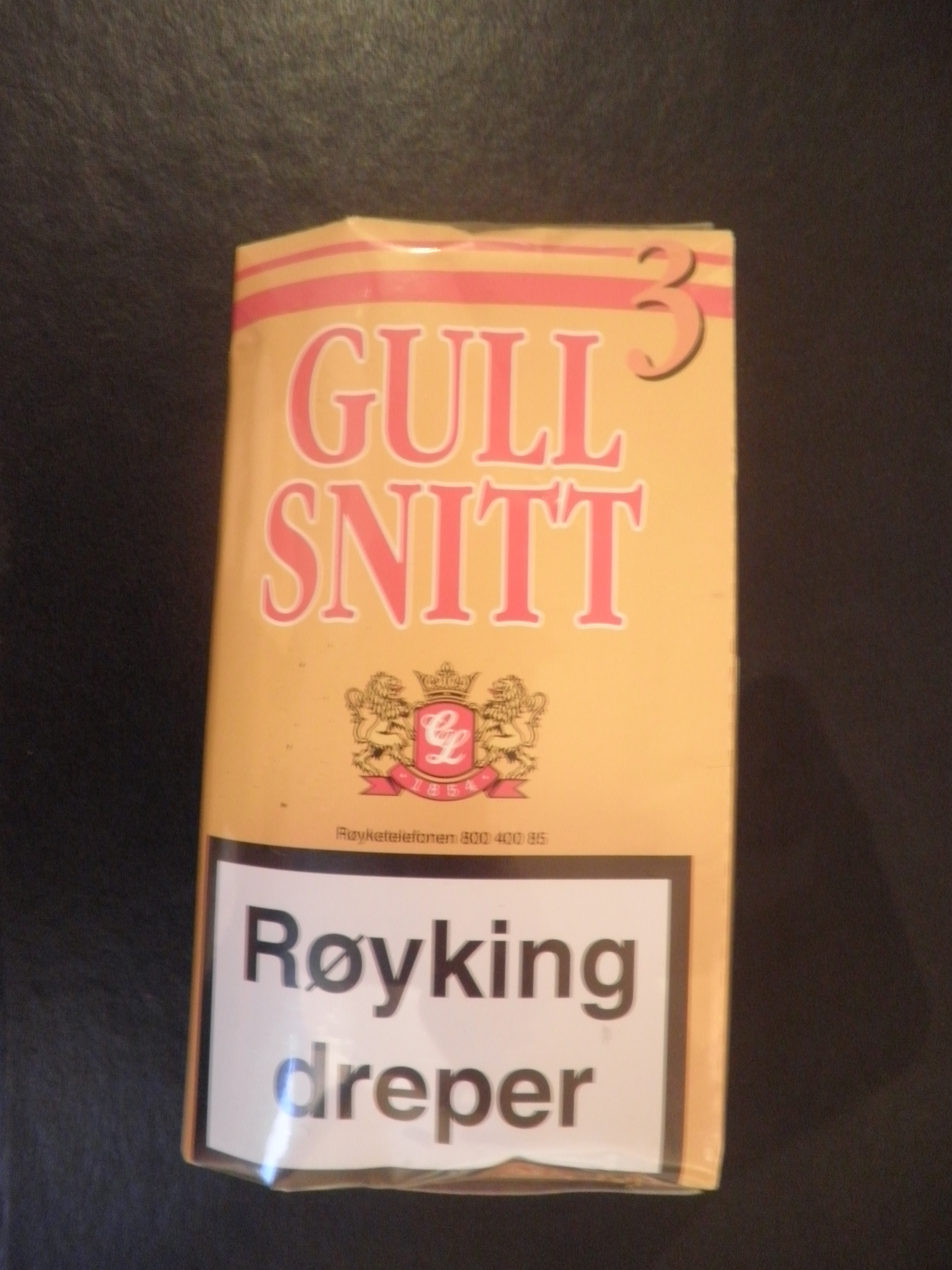 Gullsnitt, Conrad Langaard